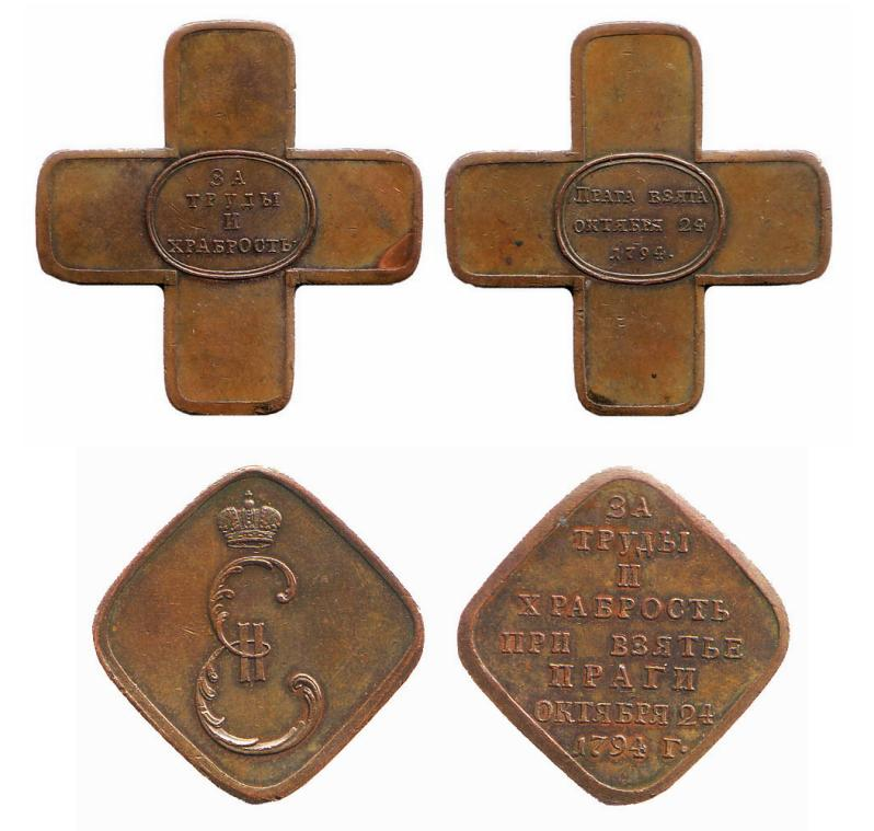 Crest and medal for Praga 1794